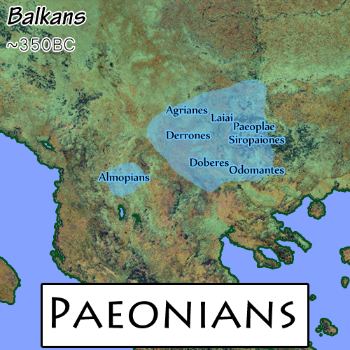 Paeonian (Thracian) tribes in the Balkans. ~350BC Sources: File derives from , made by User:Megistias